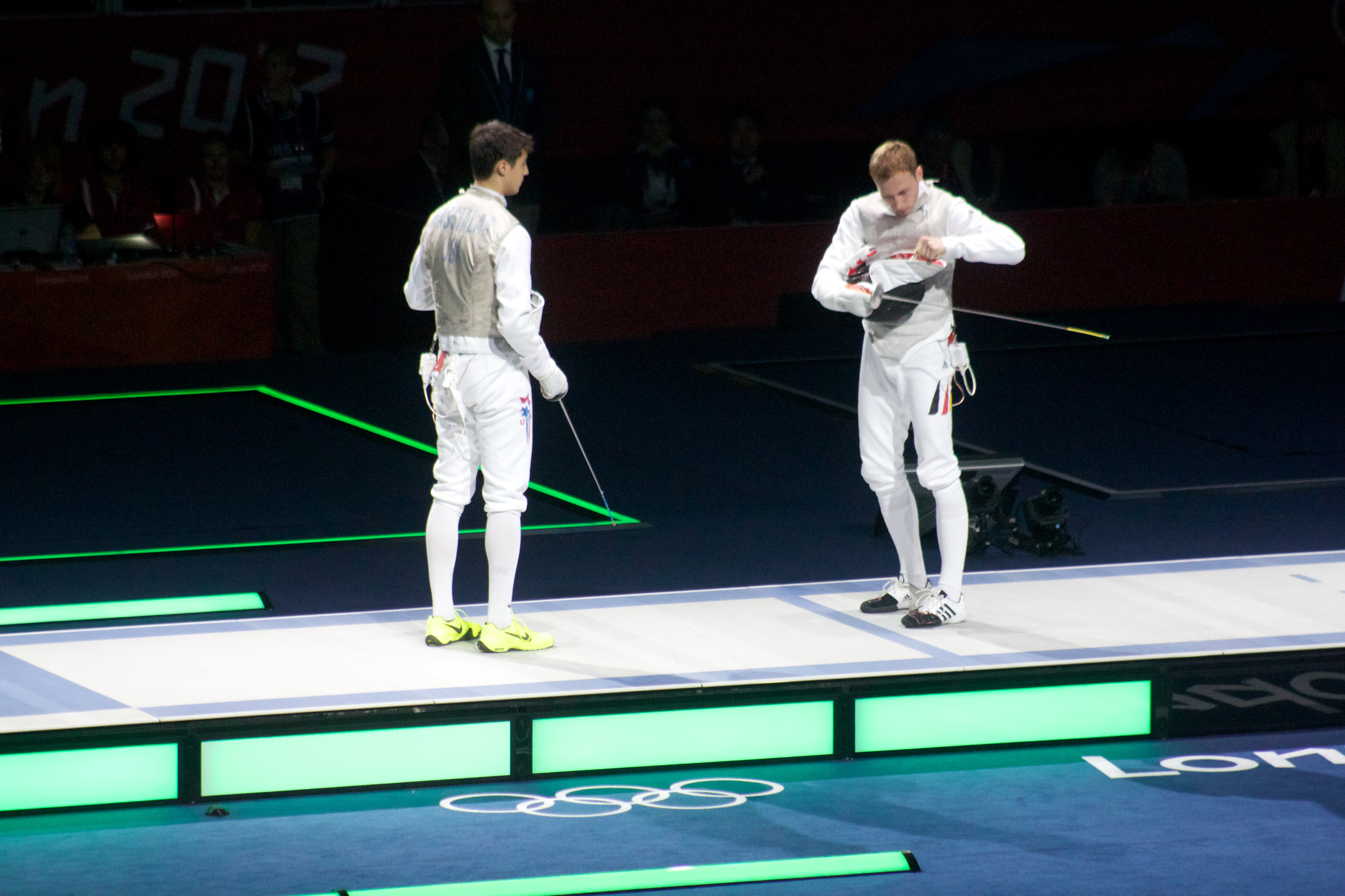 Fencing at the 2012 Summer Olympics